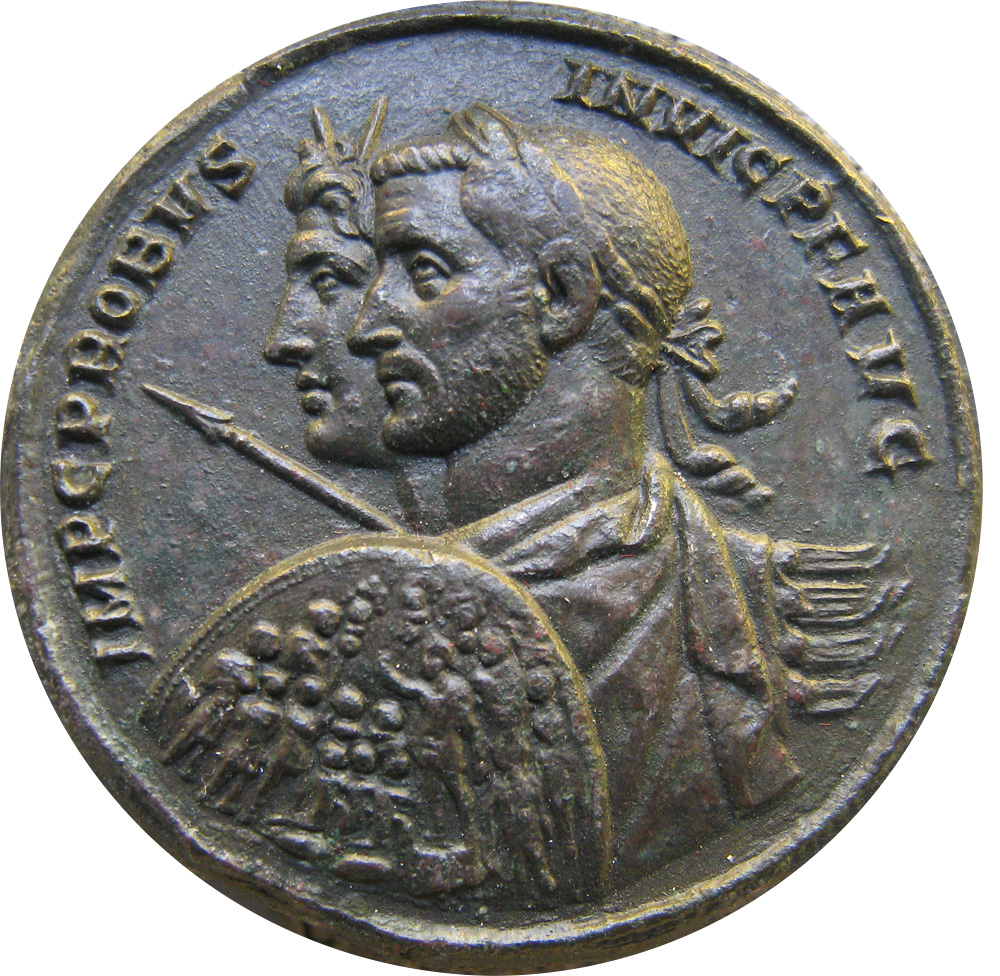 Coin of c. 280 AD depicting Probus and Sol Invictus. The inscription reads: IMP·C·PROBUS·INVIC·P·F·AUG ("Emperor Caesar Probus, Unconquered, Pious, Blessed"). From the collections of the National Museum of Denmark.